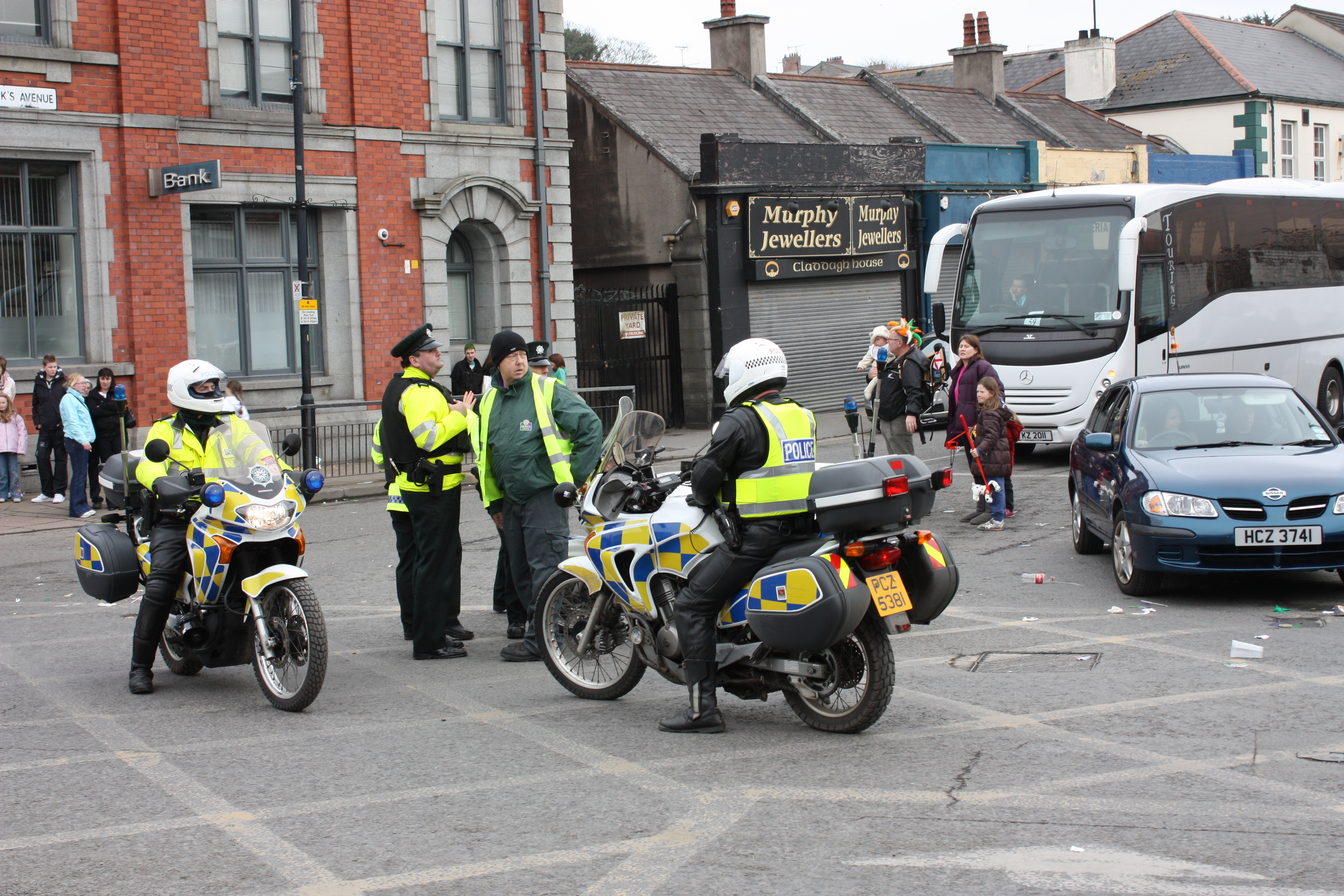 After the St Patrick's Day Parade, Market Street, Downpatrick, County Down, Northern Ireland, March 2010